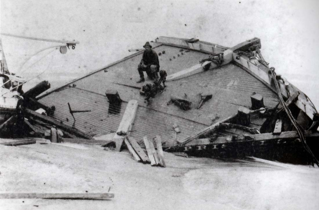 Rasmus Midgett sitting Priscilla, which was wrecked during the 1899 San Ciriaco hurricane.